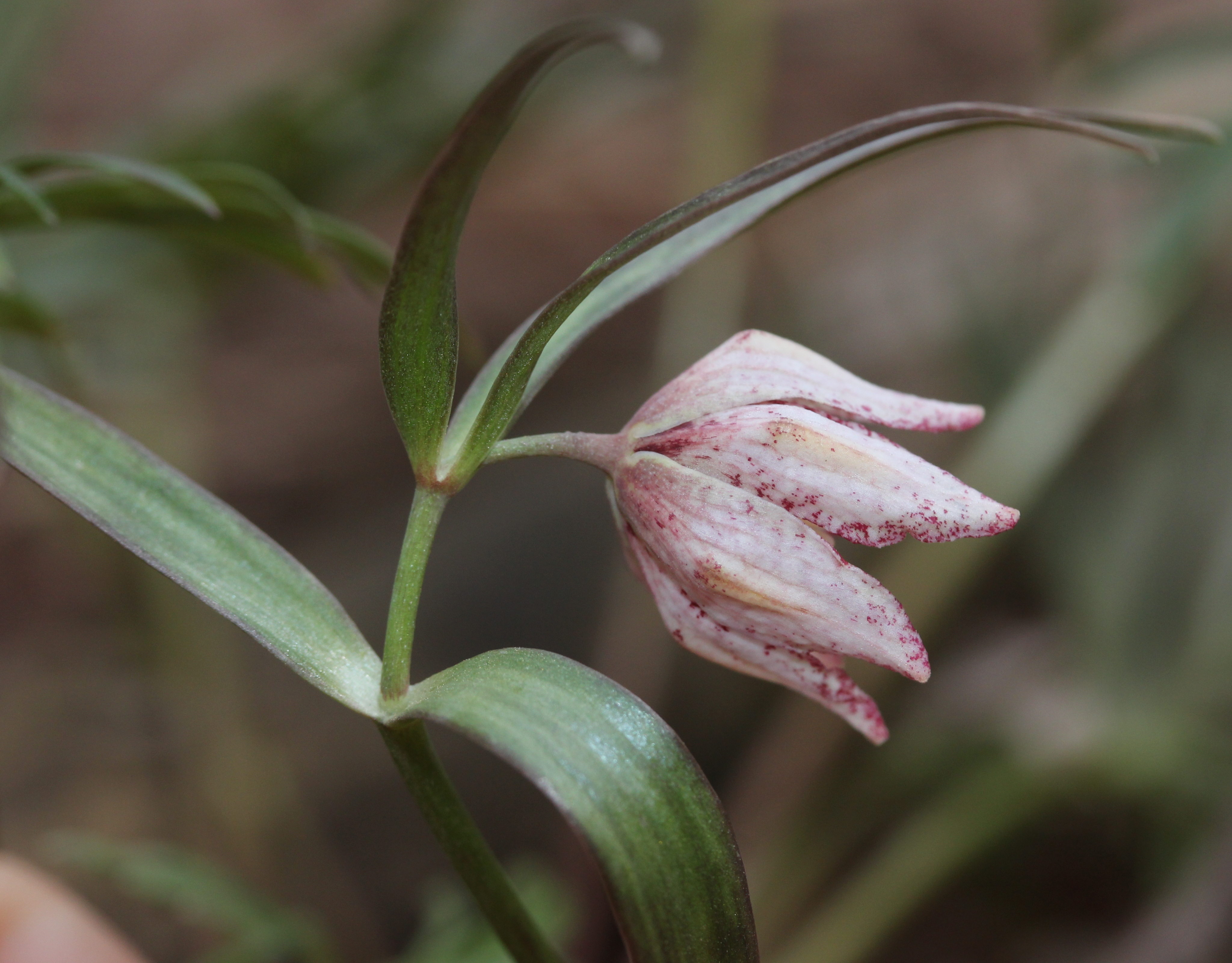 Fritillaria japonica in Mount Fujiwara, Inabe, Mie prefecture, Japan.